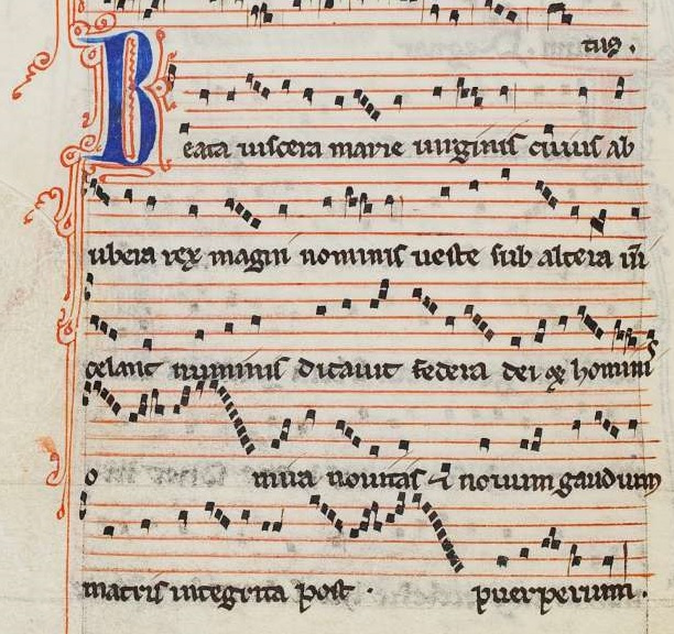 Conductus 'Beata viscera' by Perotin from Wolfenbüttel 1099. Text attributed to Philip the Chancellor.